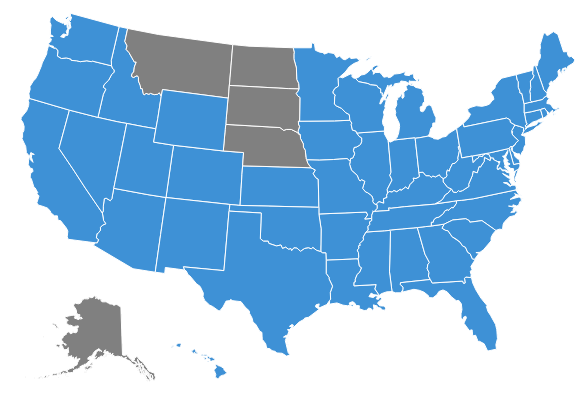 College Students for Bernie Chapter Map. States in Blue had active registered chapters